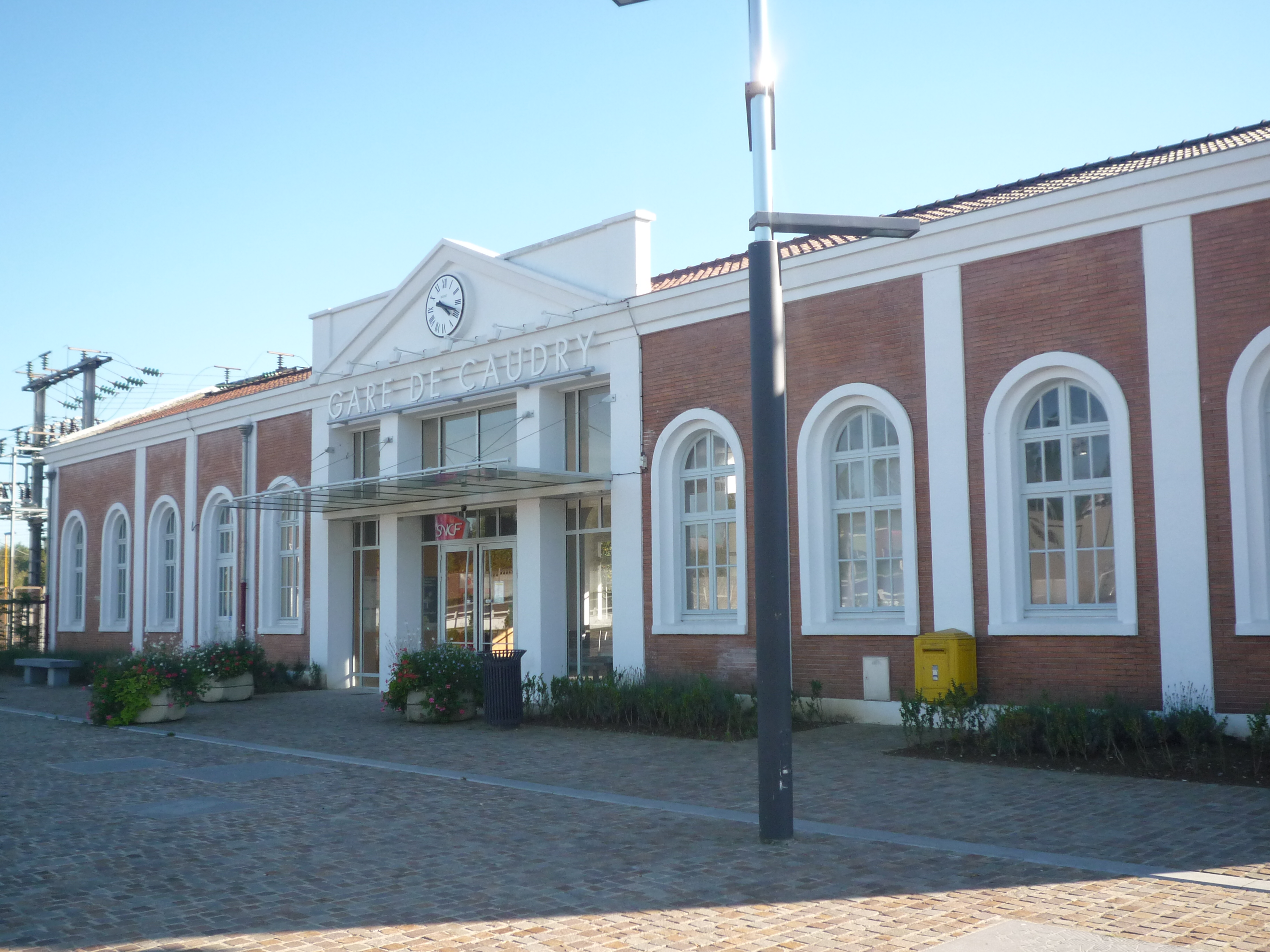 Caudry, Nord-Pas-de-Calais, France.